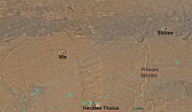 Map of Cebrenia Mars